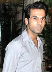 Rajkummar Rao at QUEEN success party